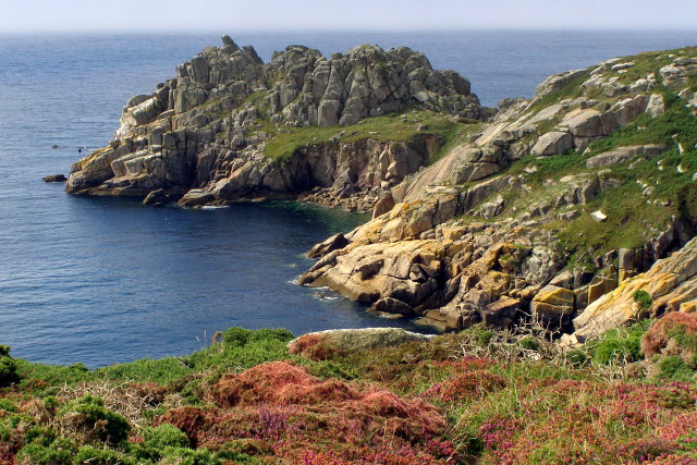 Logan Rock headland from Cribba Head View across Hall Dinas towards Cripp's Cove on the east side of the Logan Rock headland (also the iron age cliff castle of Treryn Dinas). The chasm of Chough Zawn is on the right.